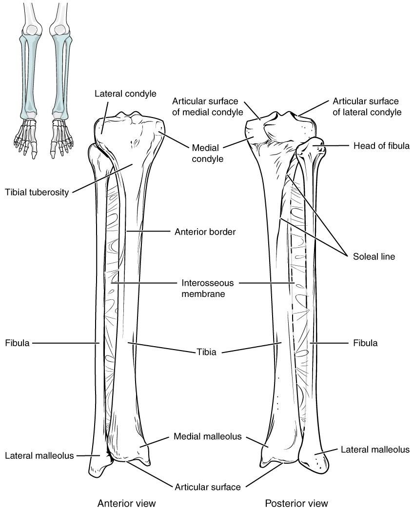 Anatomy & Physiology, Connexions Web site. Jun 19, 2013.